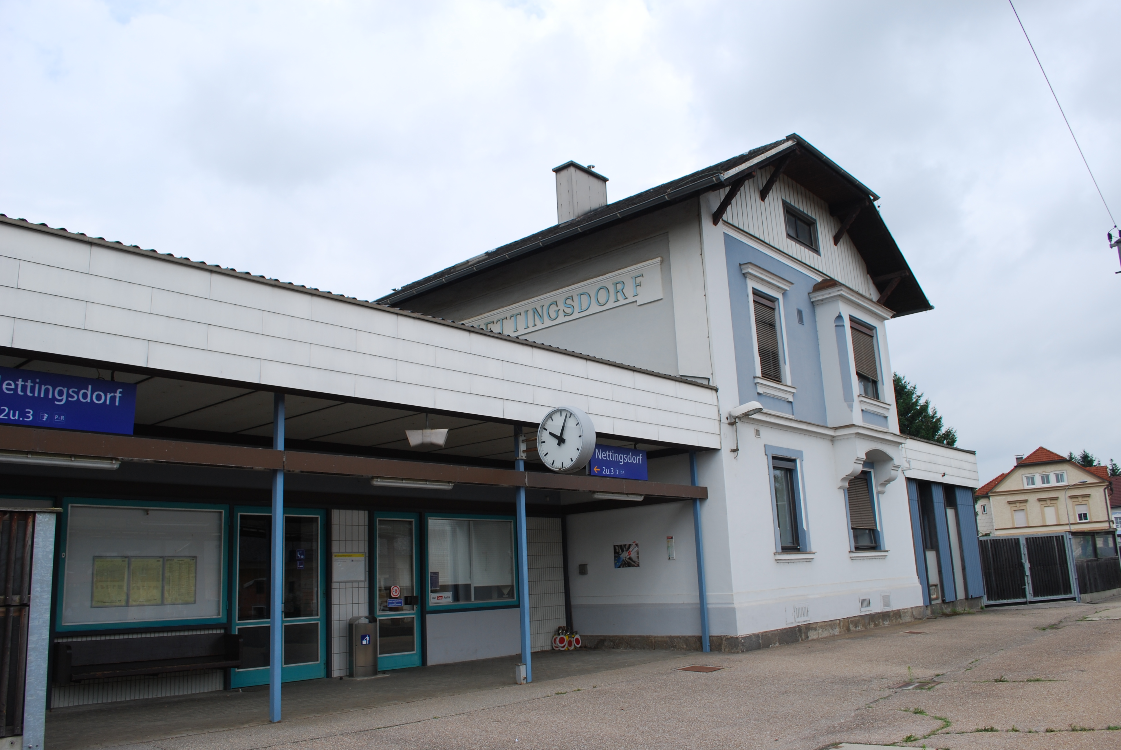 Trainstation Nettingsdorf